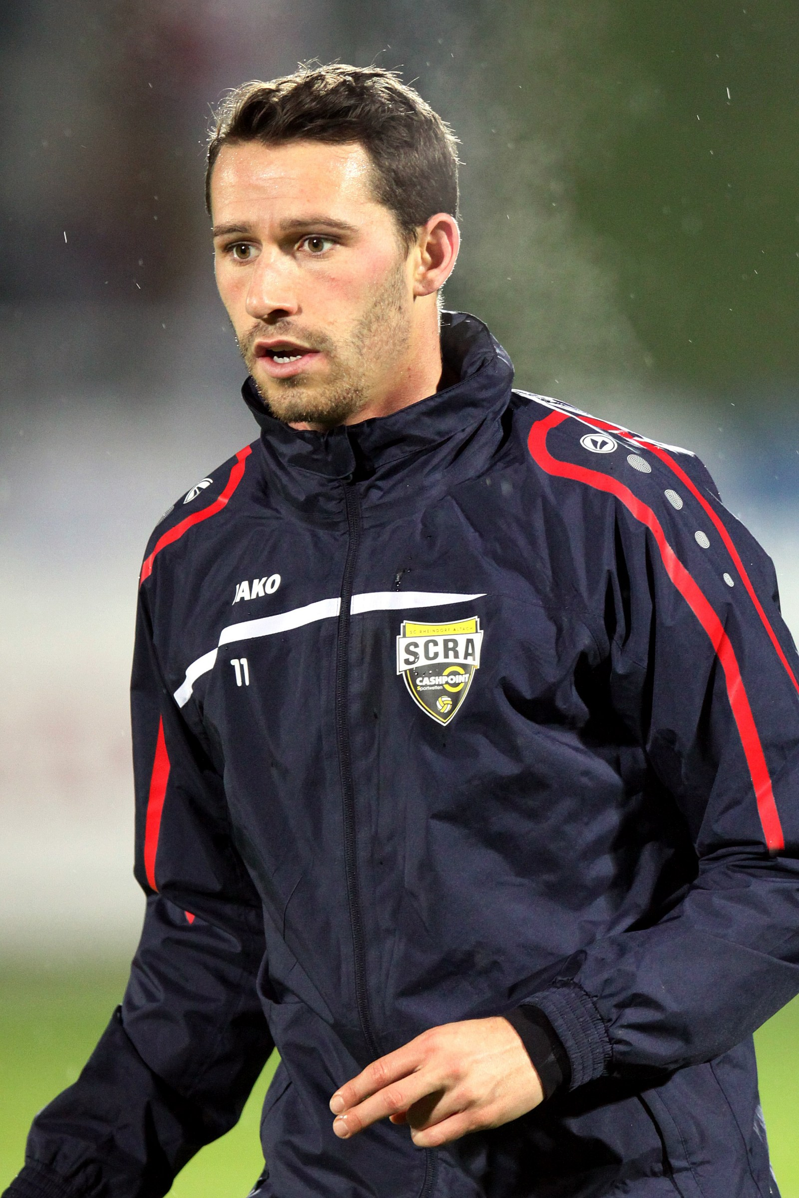 2014–15 Austrian Football Bundesliga: SC Wiener Neustadt vs. SC Rheindorf Altach (2:0 / 0:0) at 2014-12-06 in the Stadion Wiener Neustadt. – The photo shows en: (SC Wiener Neustadt/SC Rheindorf Altach). The making of this work was supported by Wikimedia Austria. For other files made with the support of Wikimedia Austria, please see the category Supported by Wikimedia Österreich.